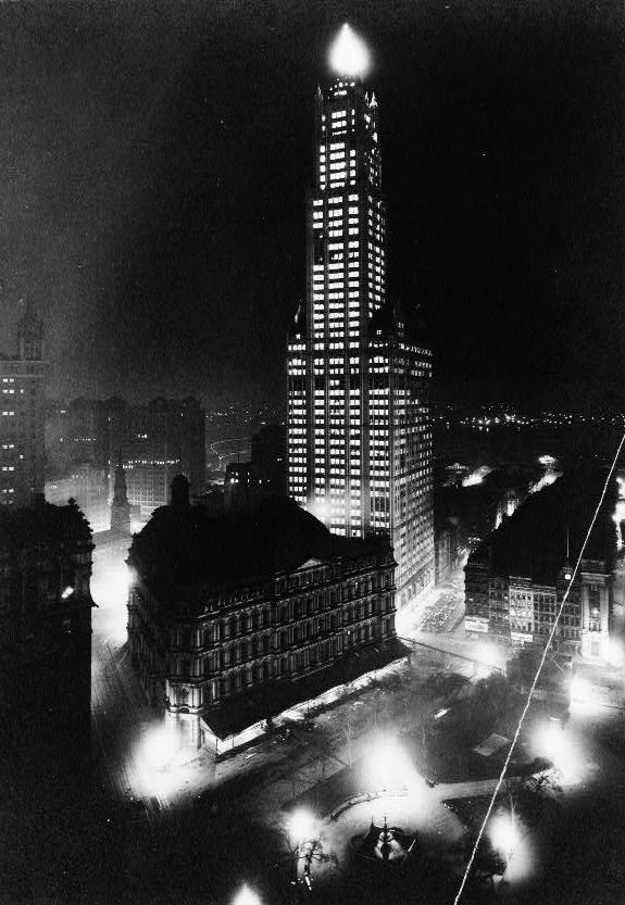 Title: [Woolworth Building at night, New York City] Date Created/Published: c1913. Medium: 1 photographic print. Reproduction Number: LC-USZ62-106874 (b&w film copy neg.) Rights Advisory: No known restrictions on publication. Call Number: U.S. GEOG FILE - New York--New York City--Buildings--Woolworth [item] [P&P] Repository: Library of Congress Prints and Photographs Division Washington, D.C. 20540 USA Notes: J181147 U.S. Copyright Office. Title devised by Library staff. Copyright by William Townand(?). Published in: The tradition of technology : Landmarks of Western technology ... / Leonard C. Bruno. Washington, D.C. : Library of Congress, 1995, p. 303.